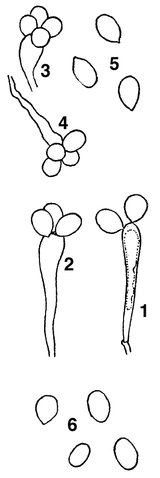 Basidia and spores of the bird's nest fungus Cyathus olla. Figures renumbered. "1-3. Mature basidia with two, three, and four spores; 4. Basidium collapsing with spores still attached; 5. Spores immediately after separation from basidia, showing conspicuous apiculus; 6. Older spores; apiculus nearly or quite gone."